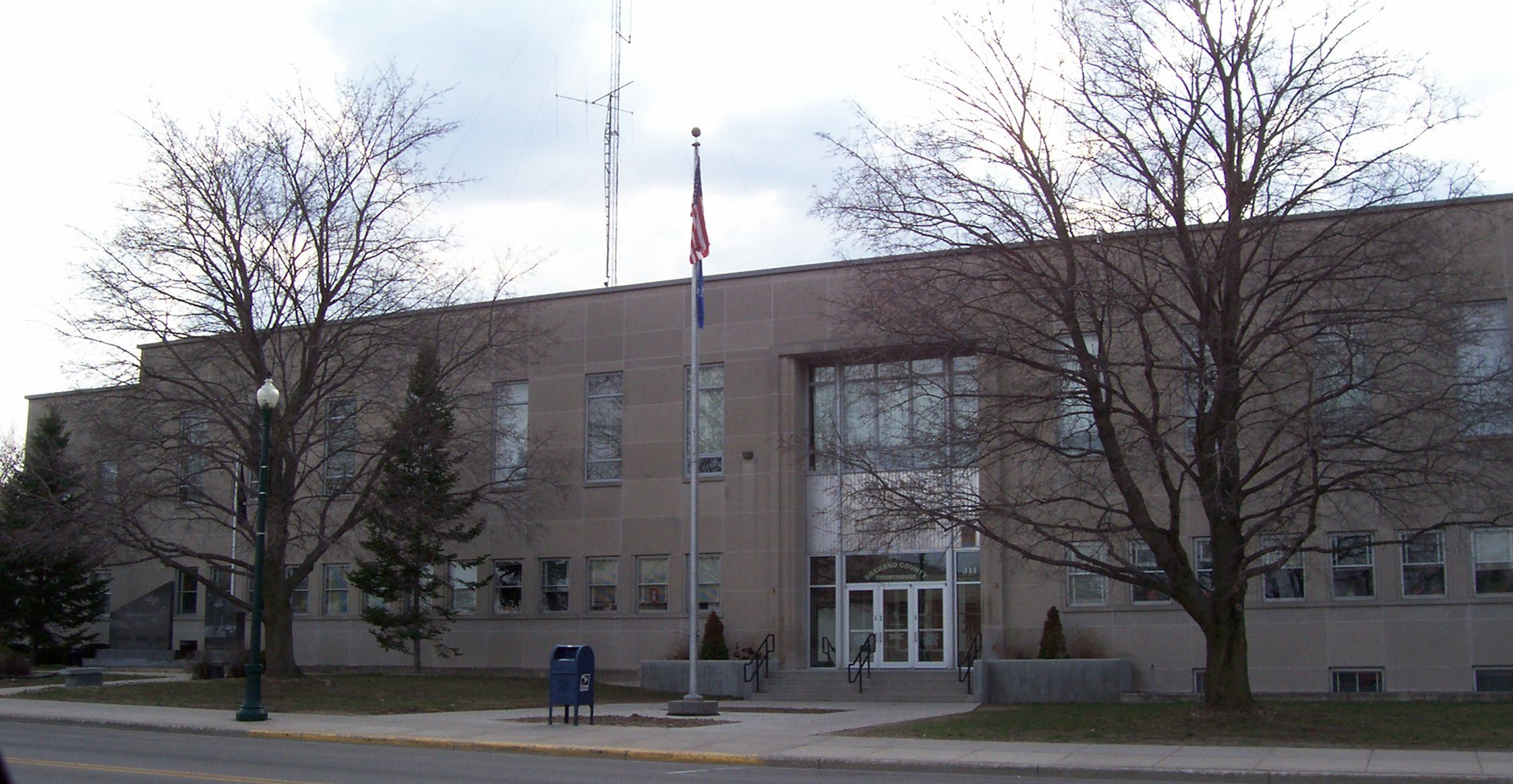 The courthouse for Shawano County, Wisconsin in Shawano, Wisconsin along Wisconsin Highway 47 and Wisconsin Highway 55.